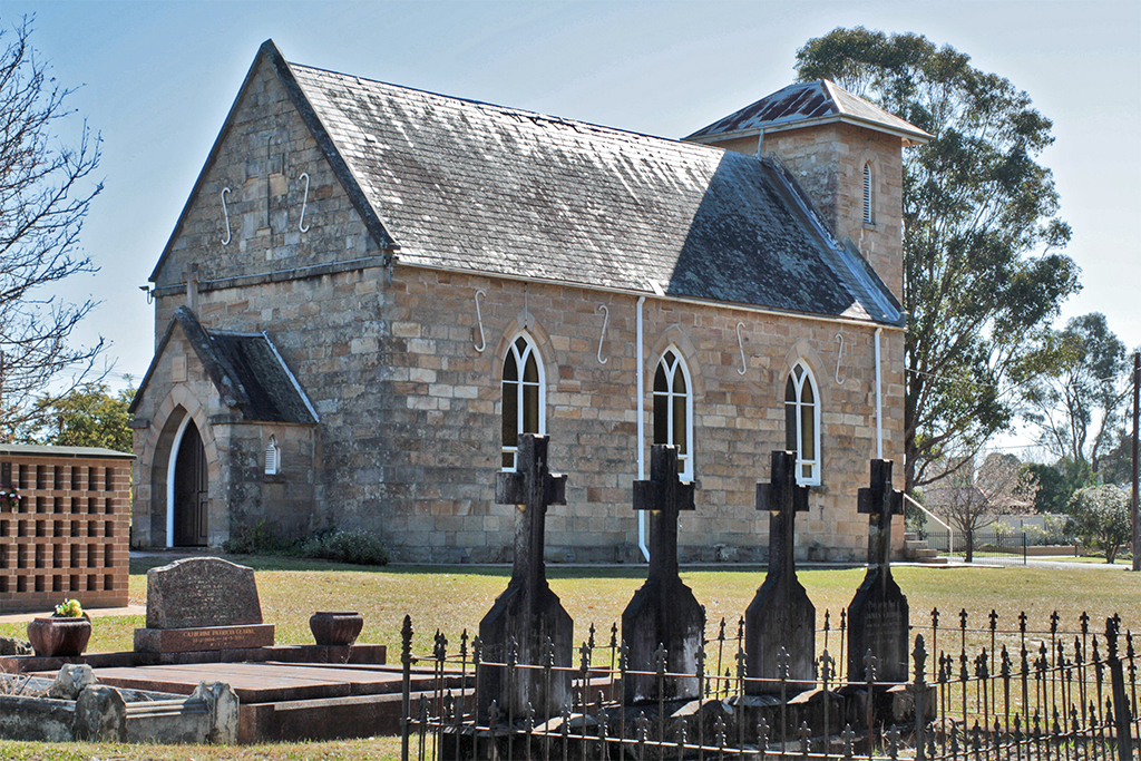 St Bedes Roman Catholic Church, Appin, New South Wales, Australia